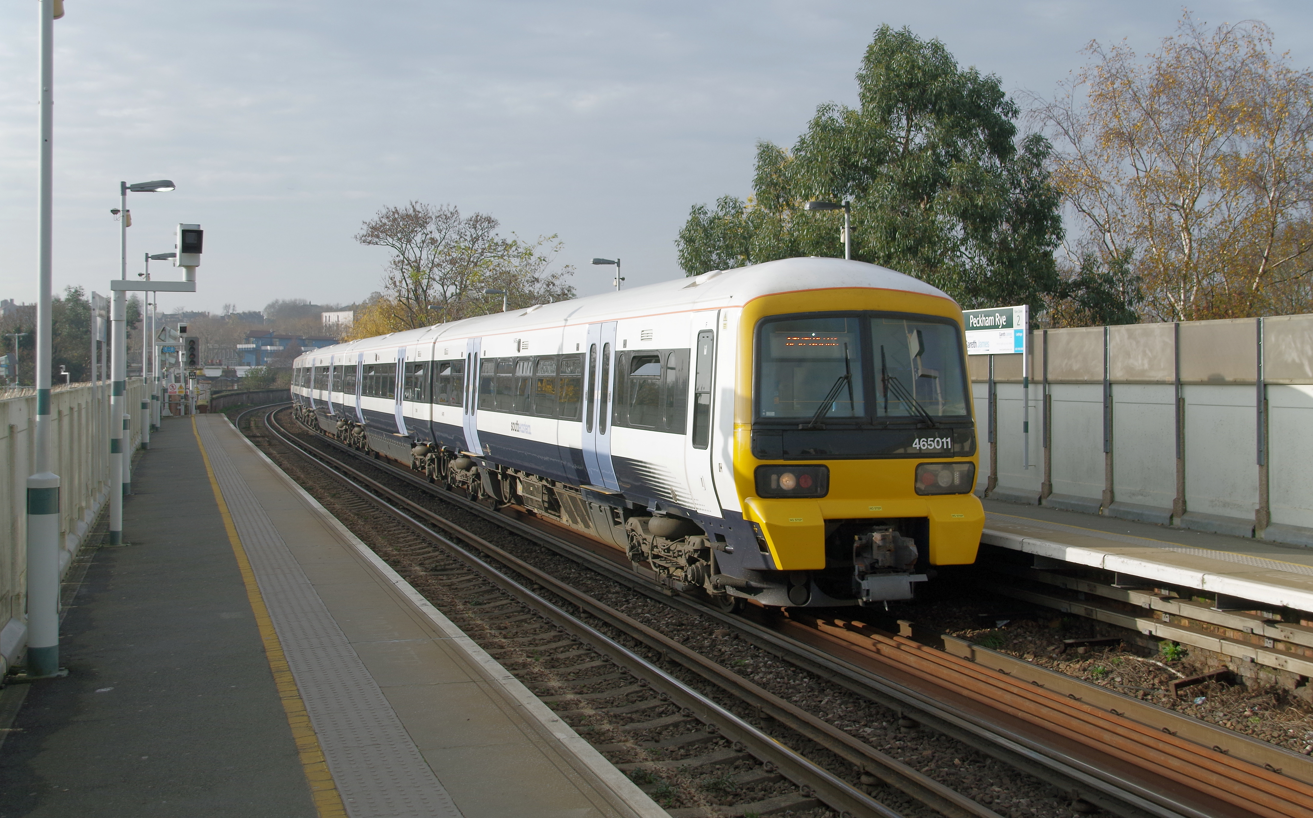 Southeastern class 465 "Networker" EMU 465011 arrives at Peckham Rye railway station, operating a service to Sevenoaks from Victoria.